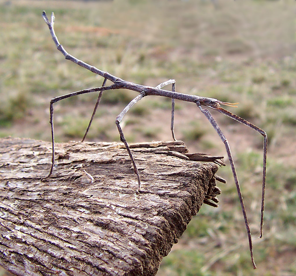 The stick insect Ctenomorpha chronus